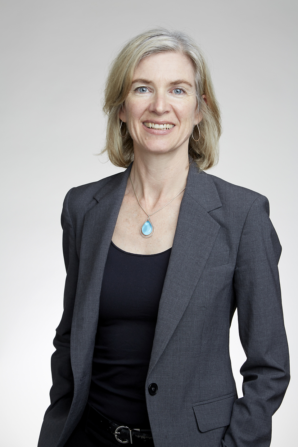 Jennifer Anne Doudna (born 19 February 1964[4]) is a Professor of Chemistry and of Molecular and Cell Biology at the Department of Chemistry and Chemical Engineering of the University of California, Berkeley.[5] She has been an investigator with the Howard Hughes Medical Institute (HHMI) since 1997. Attribution: The Royal Society